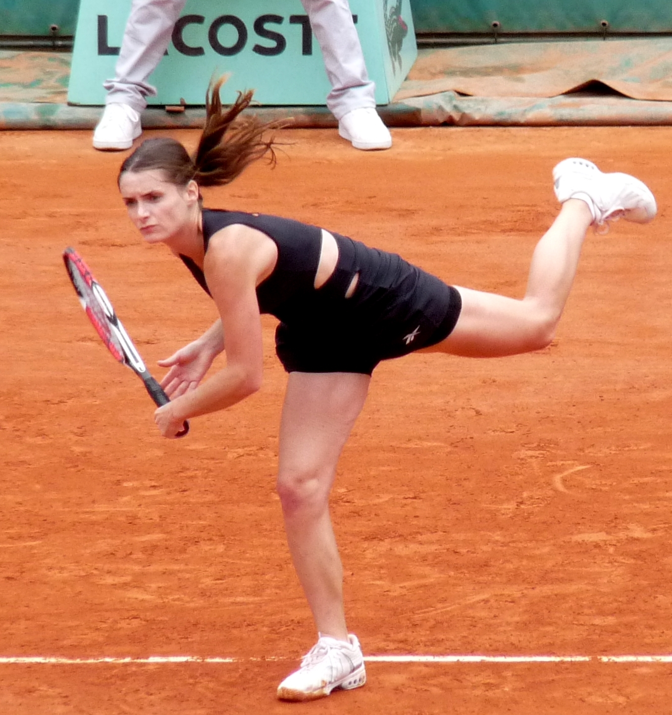 Iveta Benešová against Ana Ivanović in the 2009 French Open second round depicted person: Iveta Benešova (age: 26.32)